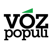 Vozpopuli digital media logo